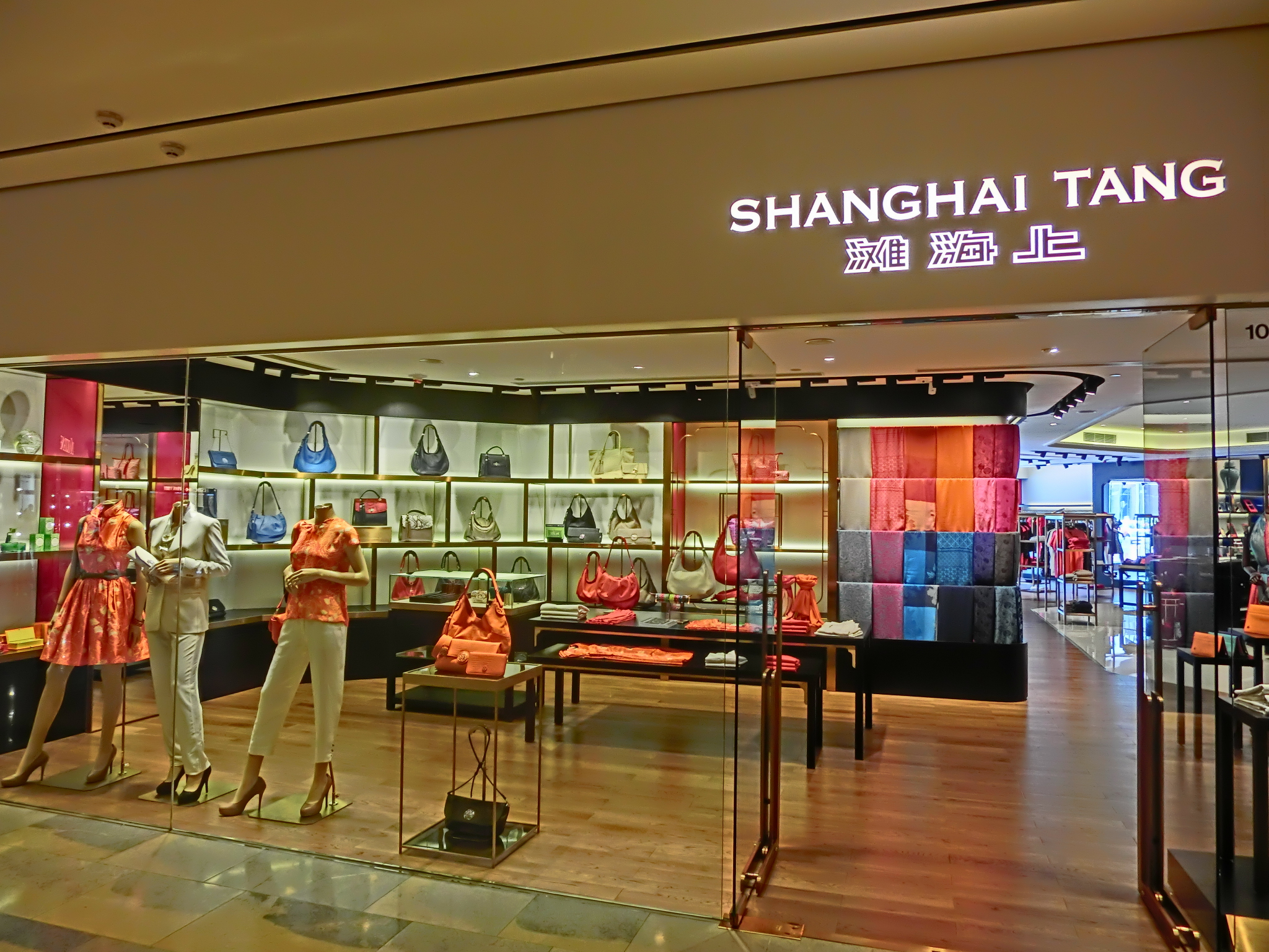 太古廣場, Interior of Pacific Place, Queensway, Admiralty, Hong Kong